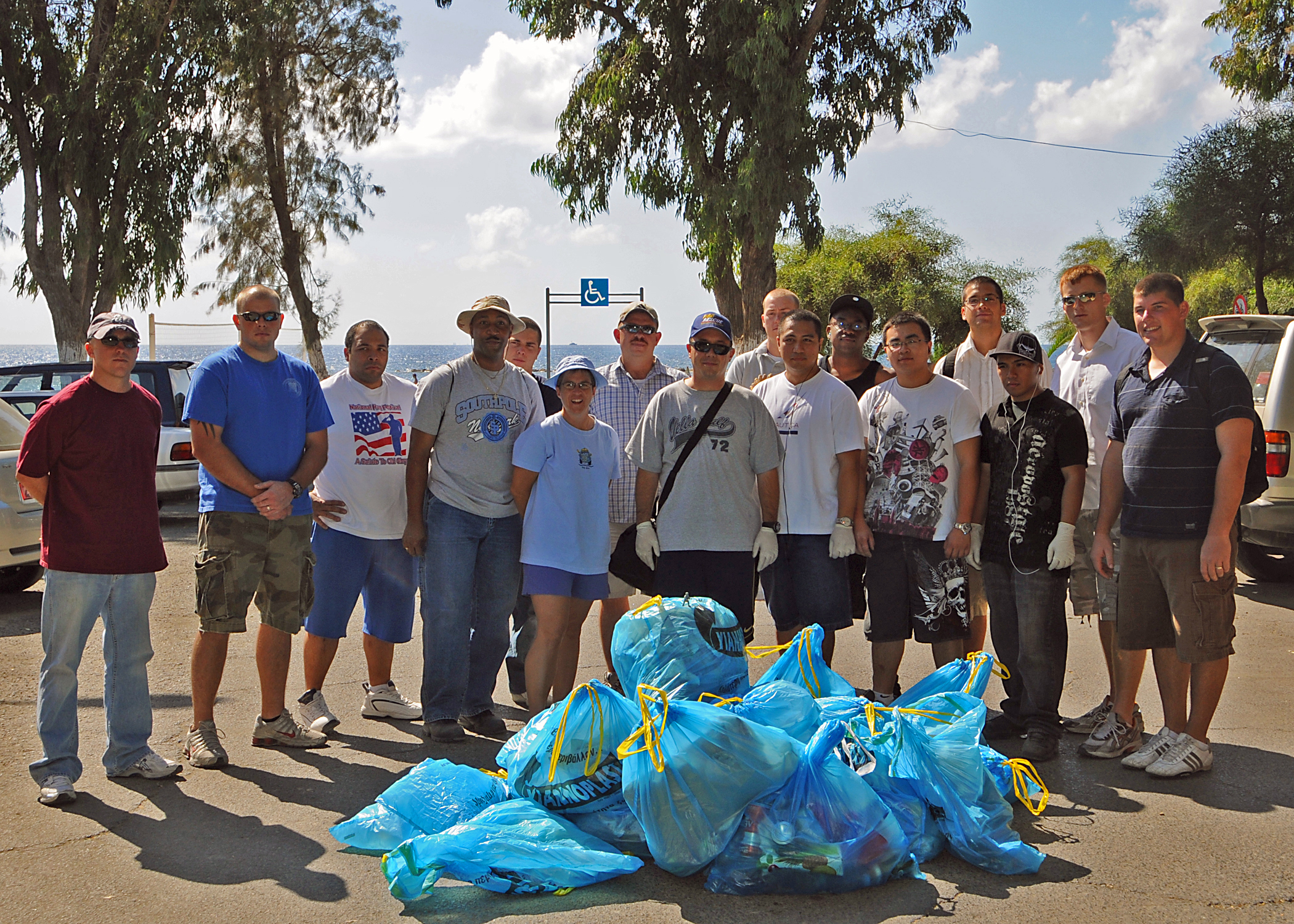 U.S. Sailors assigned to the guided missile cruiser USS Vella Gulf (CG 72) participate in a beach beautification community relations project during a port visit in Limassol, Cyprus, Sept. 19, 2008. Vella Gulf is deployed with the Iwo Jima Expeditionary Strike Group.